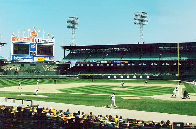 22:28, 24 March 2004 . . Rdikeman . . 639x421 (55,282 bytes) (Old Comiskey Park, Chicago, 1990, by Rick Dikeman)